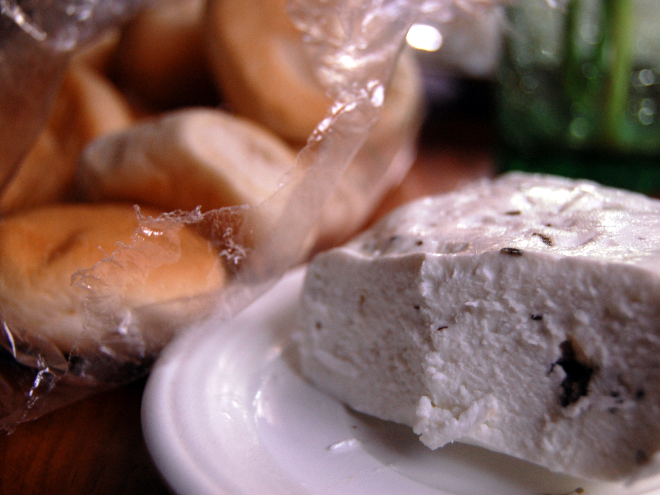 A one time DA secretary once said when asked about the rising cost of rice: " Let us eat corn." He missed the point. Rice is culturally linked to the Filipinos. It's rice or nothing. But again, pandesal can be a subsitute for breakfast despite its shrinking size. Especially if there's kesong puti around for the palaman. Kesong puti is made from unskimmed carabao's milk and is the Filipino equivalent of the mozzarella. It traces its roots in the Tagalog provinces of Bulacan and Laguna, and the Visayan provinces of Cebu and Samar. This one's made by the Philippine Carabao Center in Nueva Ecija. Going back to that DA secretary, there was a queen in France who said "Let them eat cake" when her people was rioting because there's no bread. She eventually lost her head. Nikon D40 (RTL TV Rice Crisis Documentary Shoot, July 2008)